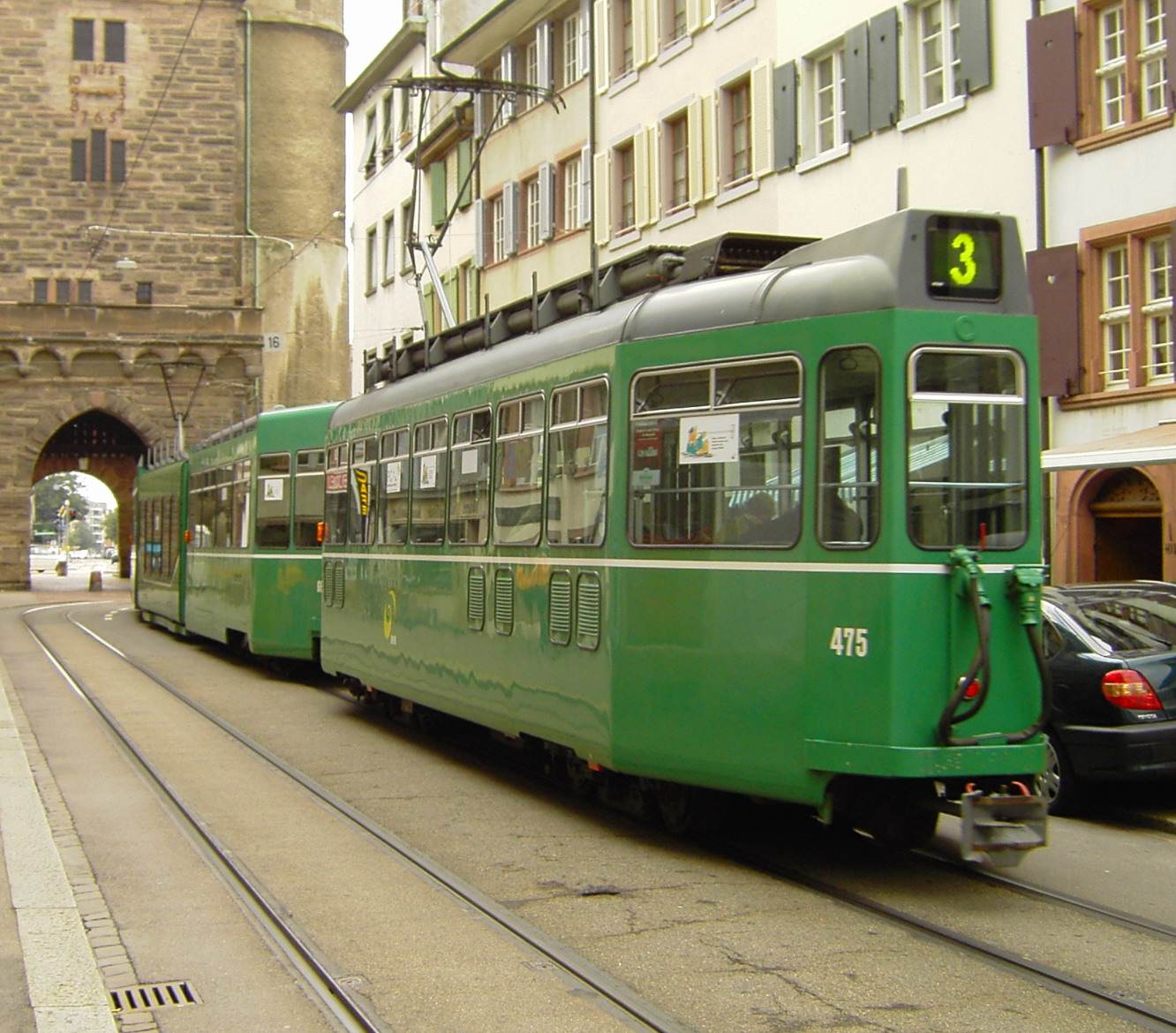 Beschreibung: Straßenbahn der Basler Verkehrs-Betriebe Quelle: selbst aufgenommen Fotograf: CrazyD, 16. Aufgust 2005 Lizenzstatus: GNU FDL Description: A tram of the Basler Verkehrs-Betriebe. This photo shows an SWP articulated car hauling a Swiss Standard-type trailer. Source: photo was taken by my self Photographer: CrazyD, 16 August 2005 Licence: GNU FDL